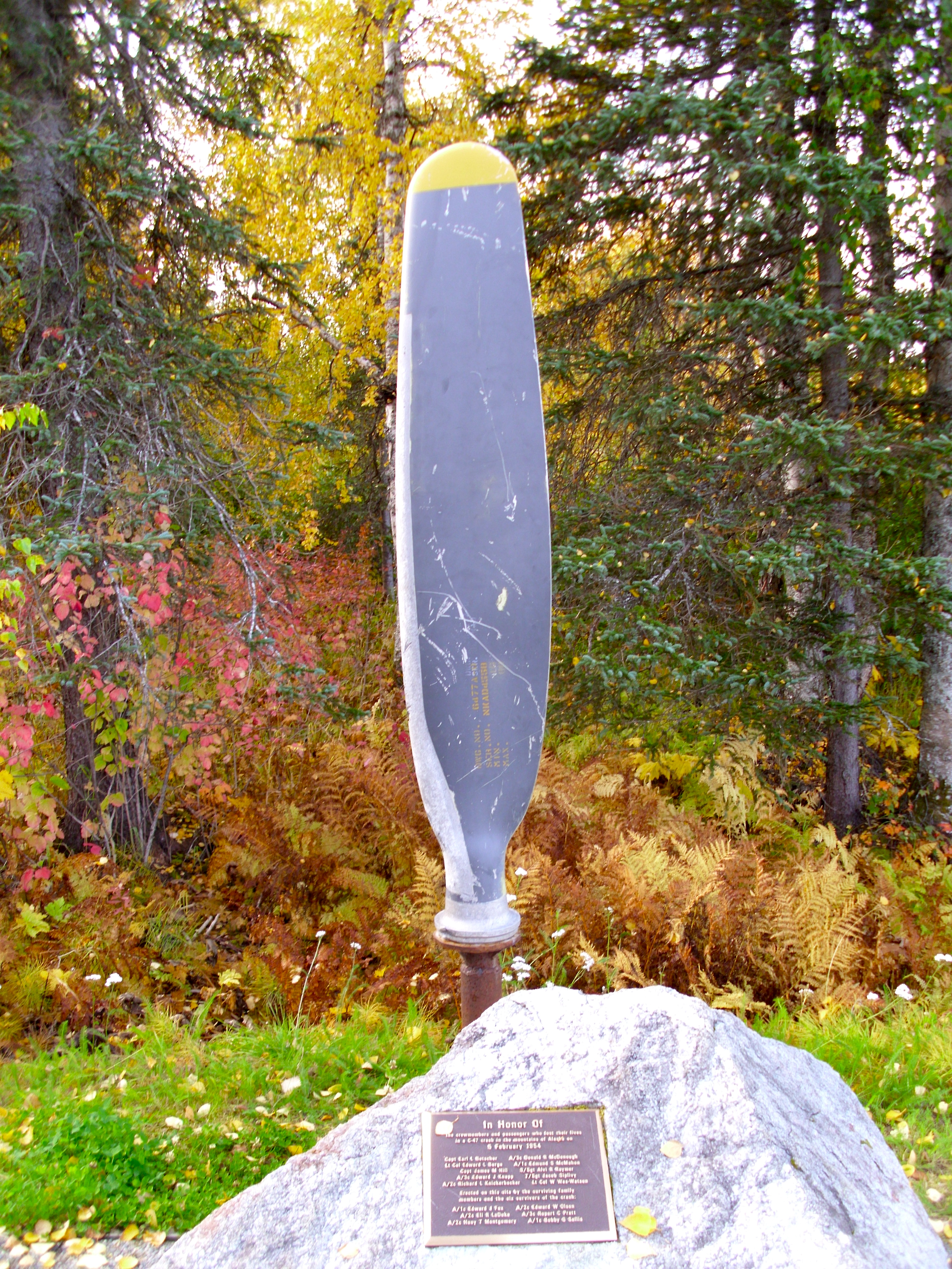 Memorial to victims of a 1954 crash of a C-47 in Alaska, Alaska Veterans Memorial. One of the actual propellors from the crashed plane is used as part of the memorial.